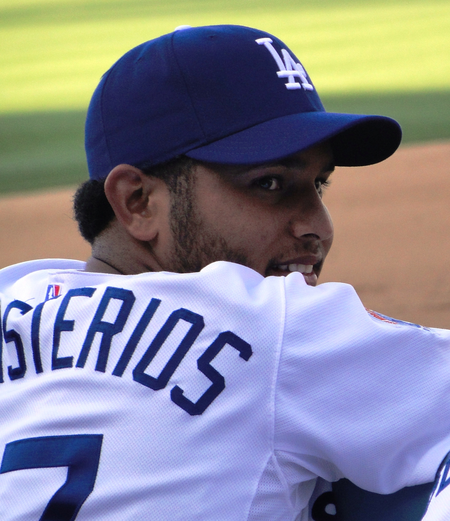 Description Photograph of Carlos Monasterios in dugout at Dodger Stadium Date26 June 2010SourceI (Cbl62 (talk)) created this work entirely by myself.AuthorCbl62 (talk) 05:23, 27 June 2010 (UTC) 05:23, 27 June 2010 . . Cbl62 . . 1,899×2,198 (1.58 MB) Photograph of Carlos Monasterios in dugout at Dodger Stadium